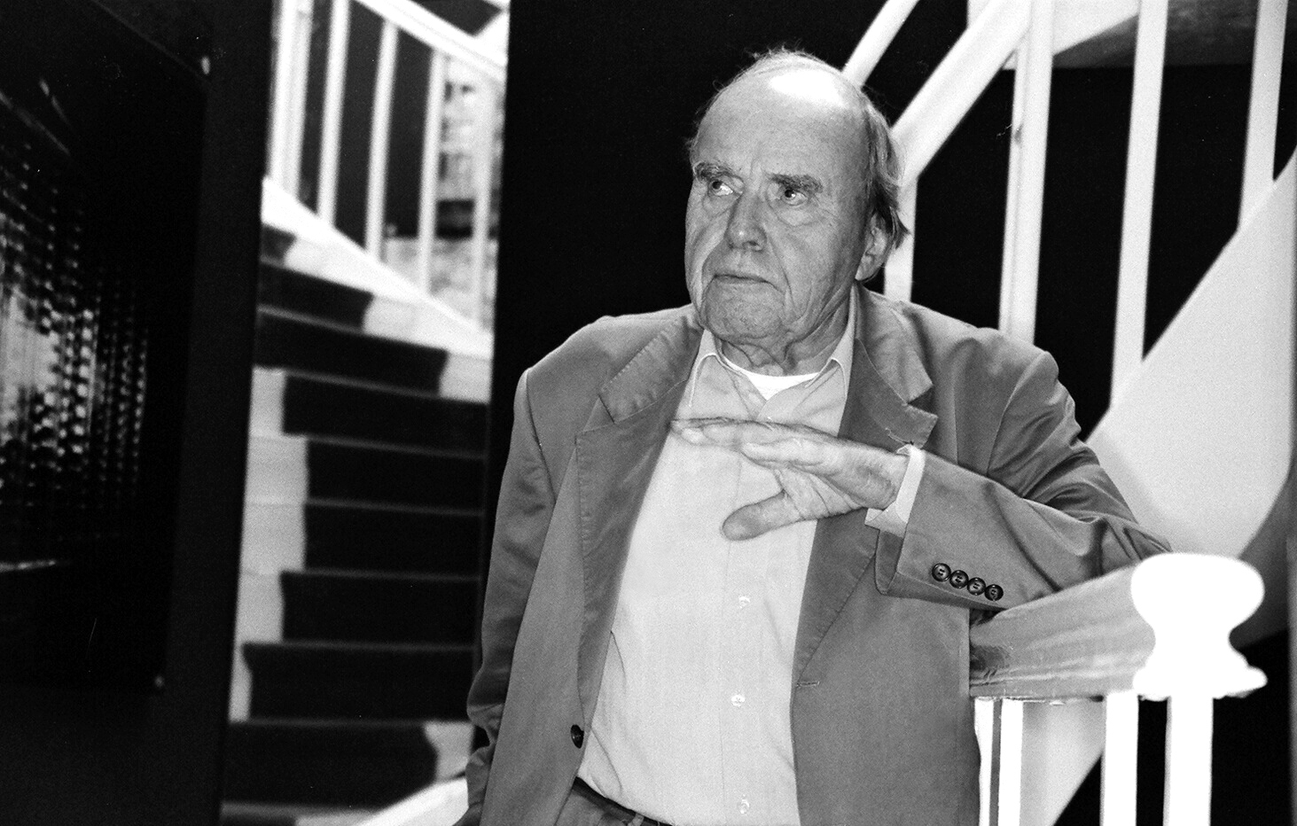 Harald Deilmann - Portrait 2005